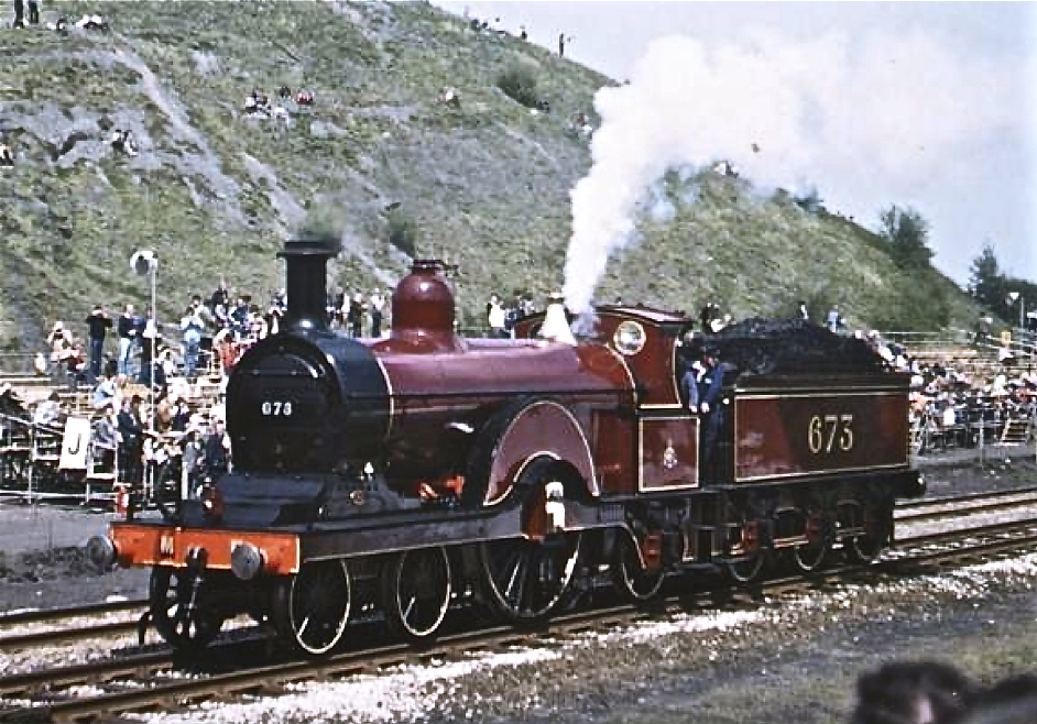 Midland Railway 115 Class 4-2-2 no 673 in Rainhill in July 1980